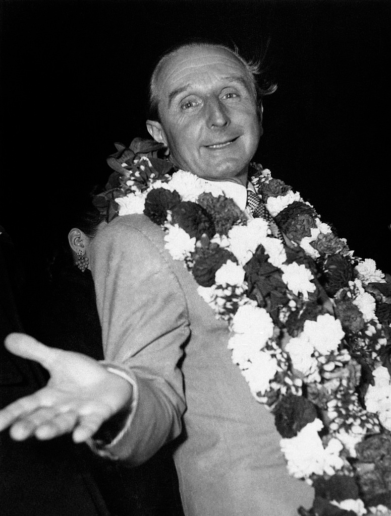 The source of the photo states: Ardito Desio Coming Back From The Italian Expedition To K2 Italian explorer and geologist Ardito Desio, member of CAI (Club Alpino Italiano) and director of the Geology Department at the University of Milan, coming back from the Italian expedition to K2. Ciampino Airport, 1954. (Photo by Mondadori Portfolio via Getty Images)